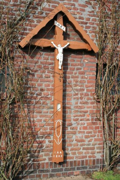 Cultural heritage monument No. 40 in Gangelt